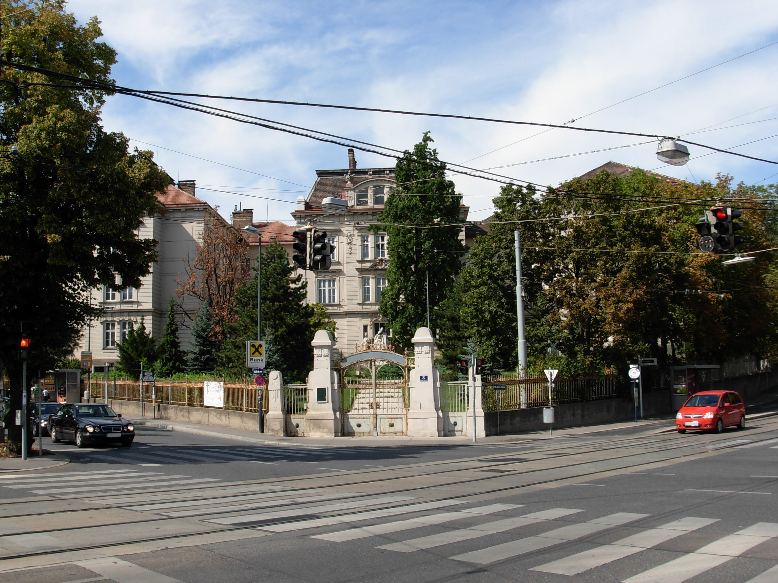 former orphanage Villa Hohe Warte, Vienna